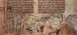 Battle of Evesham